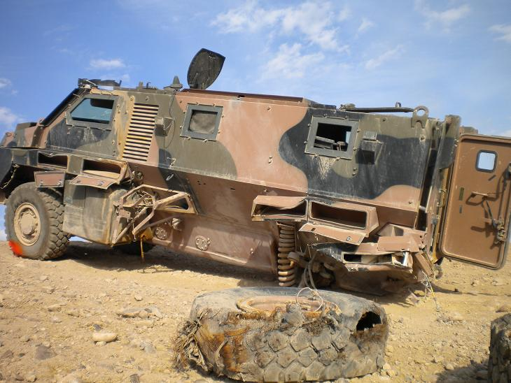 Bushmaster hit by IED, showing V-shaped armour of the vehicle. The V-shaped armour deflects the blast of mines and IED's, resulting in minor injuries (in this case just acoustic trauma of some of the occupants).